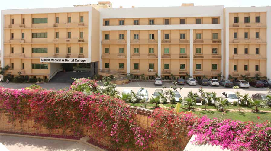 The UMDC campus located at Korangi Creek opposite Creek General Hospital.